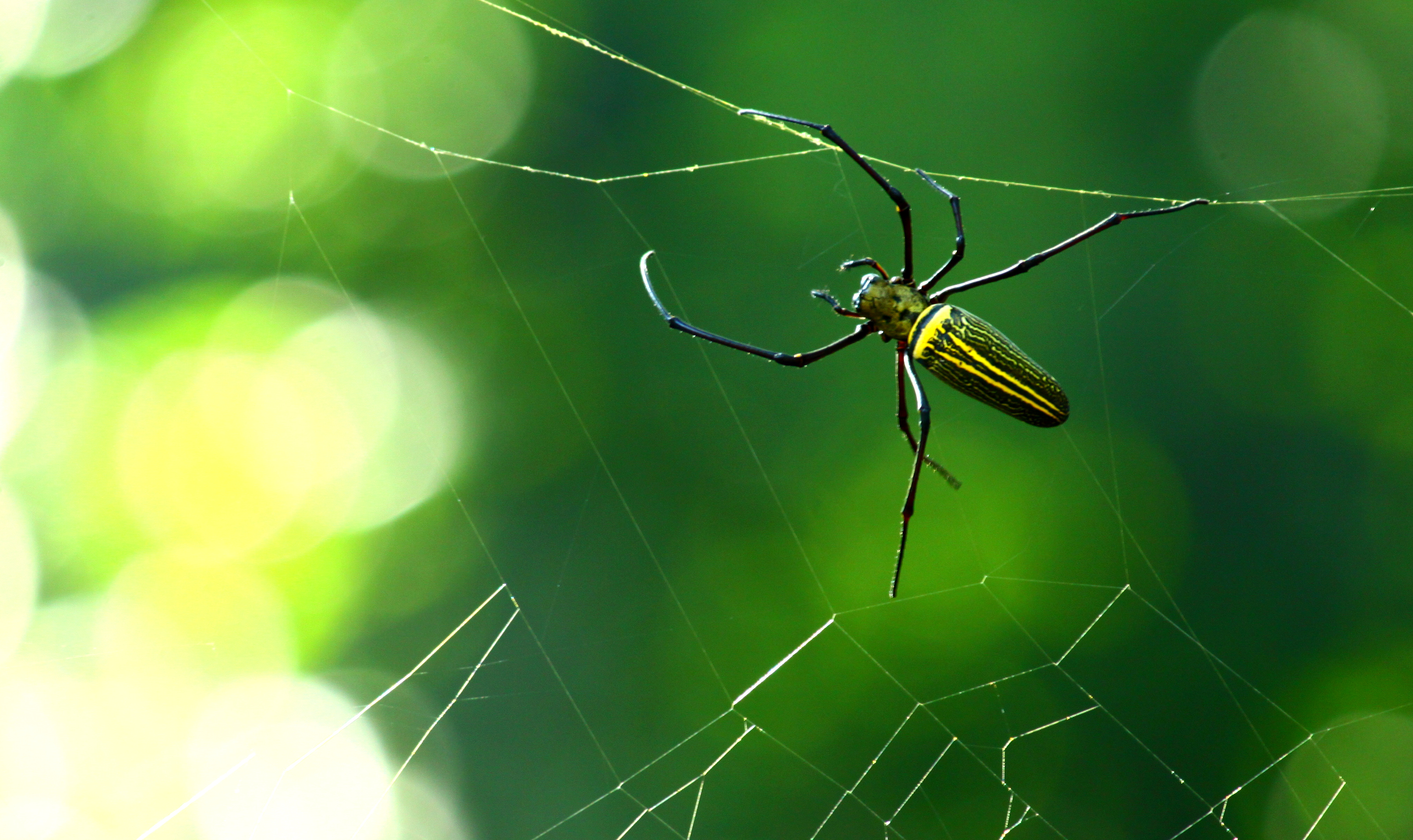 This media file is uploaded with Malayalam loves Wikimedia event - 3.